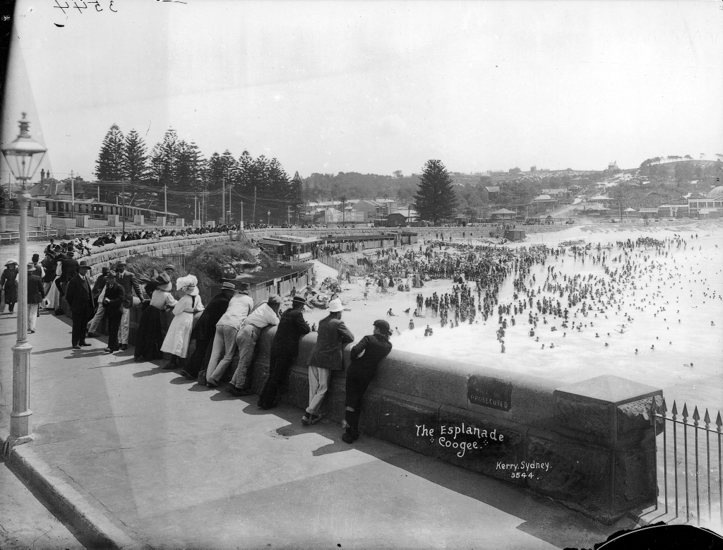 Glass negative, full plate, 'The Esplanade, Coogee', Kerry and Co, Sydney, Australia, c. 1884-1917